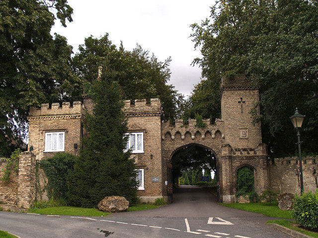 Gothic style entrance gate to Cave Castle Hotel, South Cave in the East Riding of Yorkshire, England